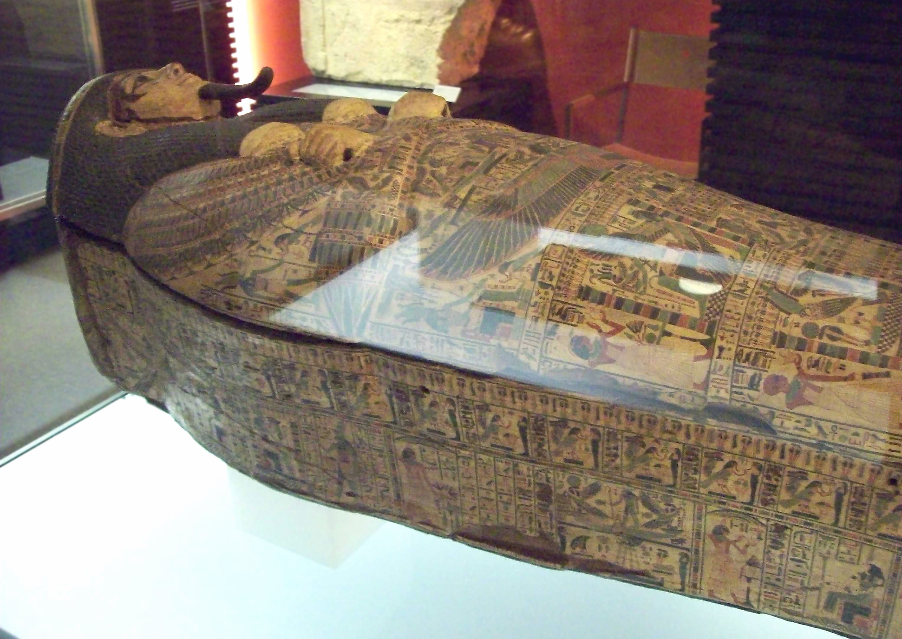 Ancient Egyptian sarcophagus from the 21st Dynasty. According to the inscriptions, it belonged to a grand priest "uab" and priest "enterer" to the sanctuary of Amun's temple, named Amenemhat. Later on, sarcophagus was re-used, and name and titles were partially erased. Classification: Niwinsky, type II-a.